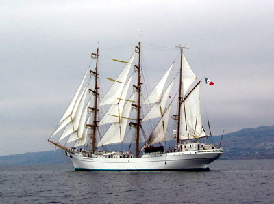 The Mexican Naval Training Ship Cuauhtémoc off the coast of Los Angeles.